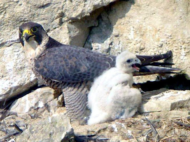 Falco peregrinus Young animal near Montbelliard - France